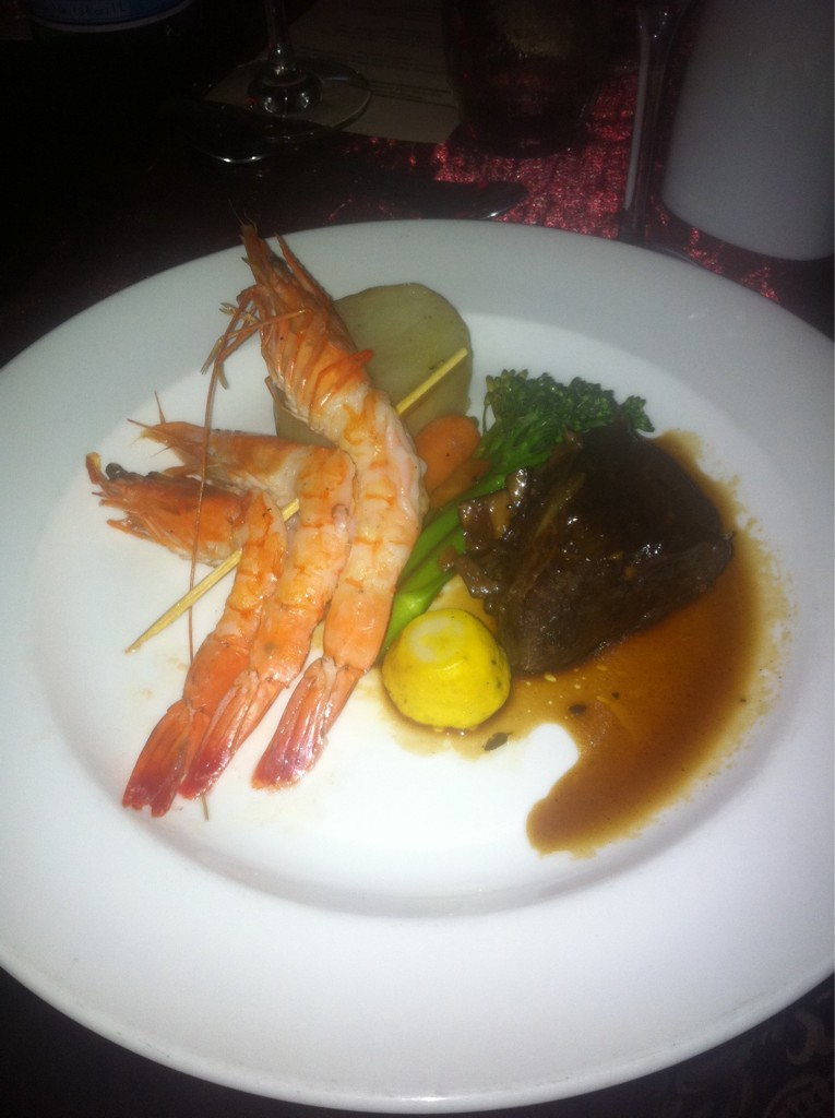 Duo of malbec braised beef short rib, Hawaiian blue prawns, confit of potato, baby vegetables, truffle ragout